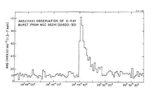 The measurement of an X-ray burst from NGC 6624 by the Astronomical Netherlands Satellite